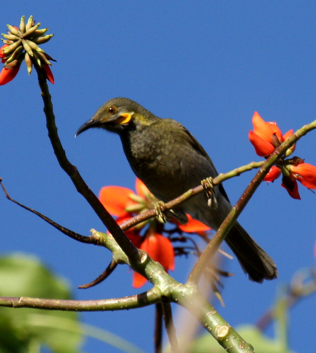 Wattled Honeyeater (Foulehaio carunculatus) De Voeux Peak, Taveuni, Fiji Isles